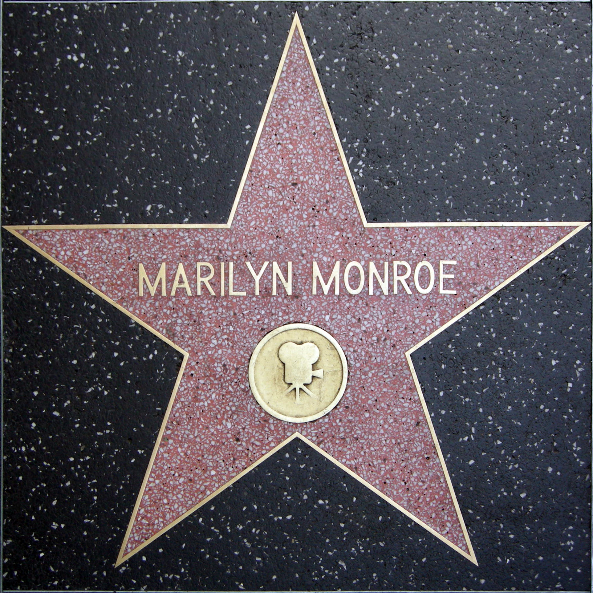 Walk of fame, marilyn monroe